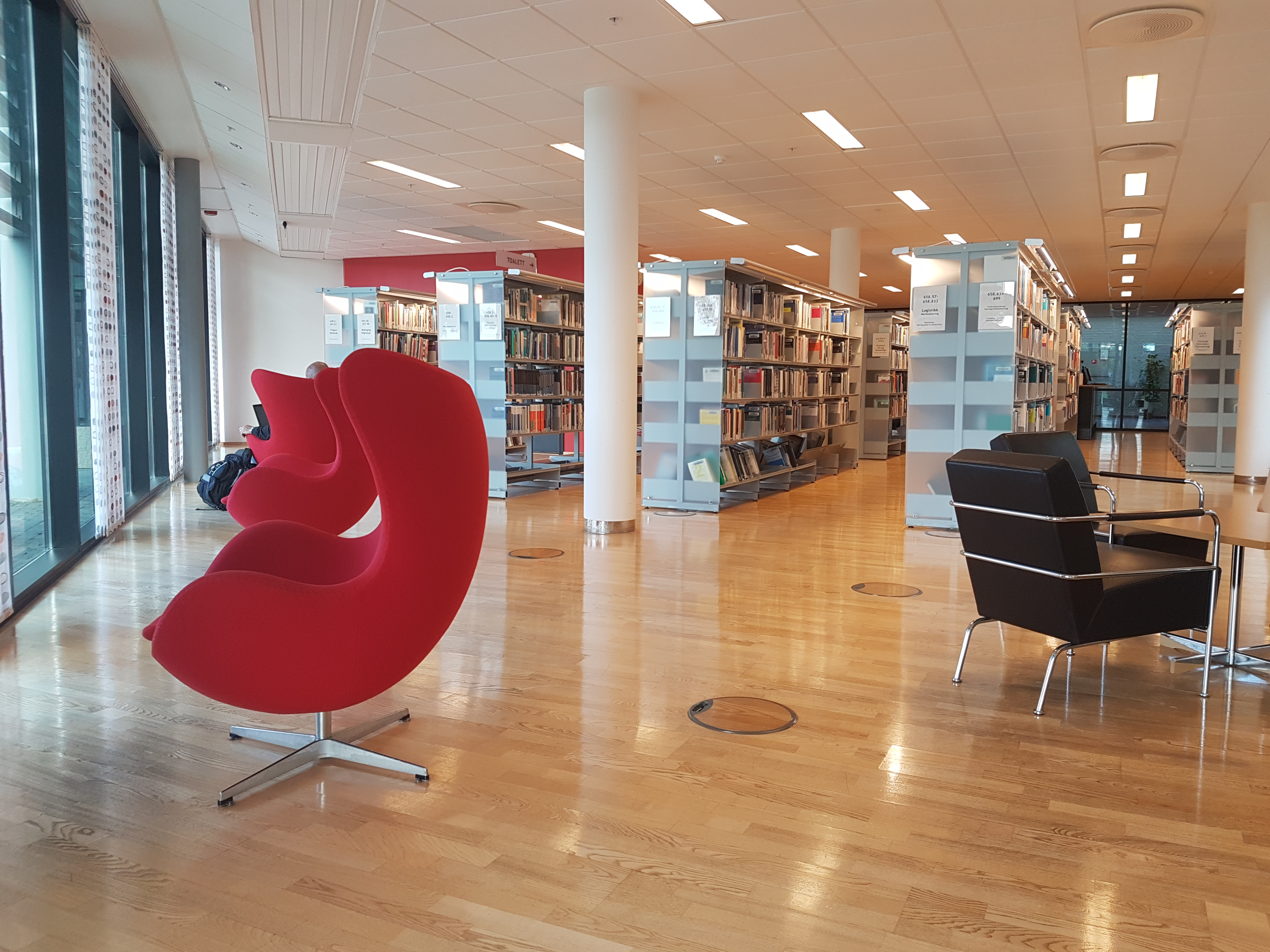 Ground floor of Nord University's library at main campus in Bodø